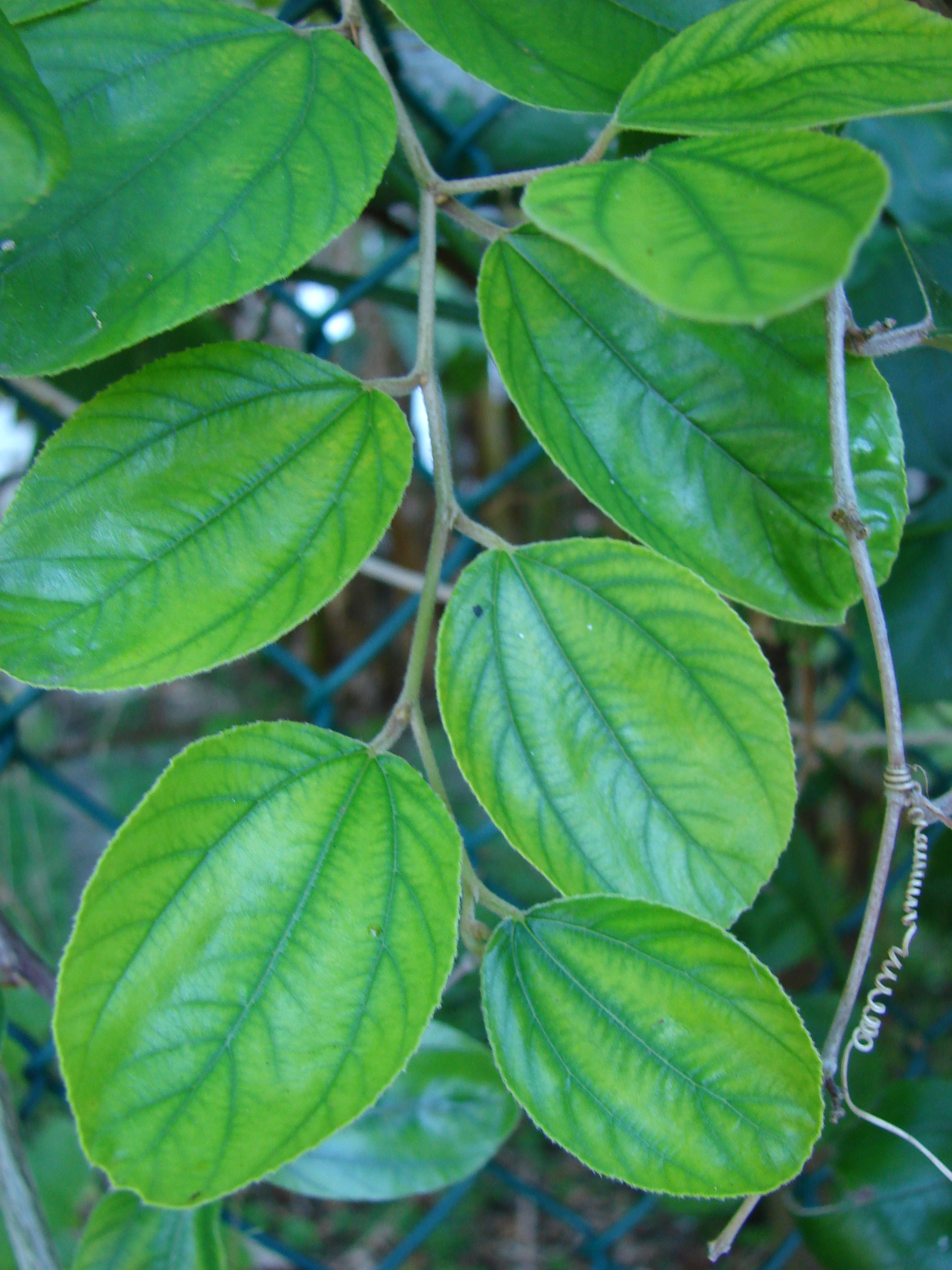 Ziziphus mauritiana (leaves). Location: Midway Atoll, 415 Commodore Ave Sand Island